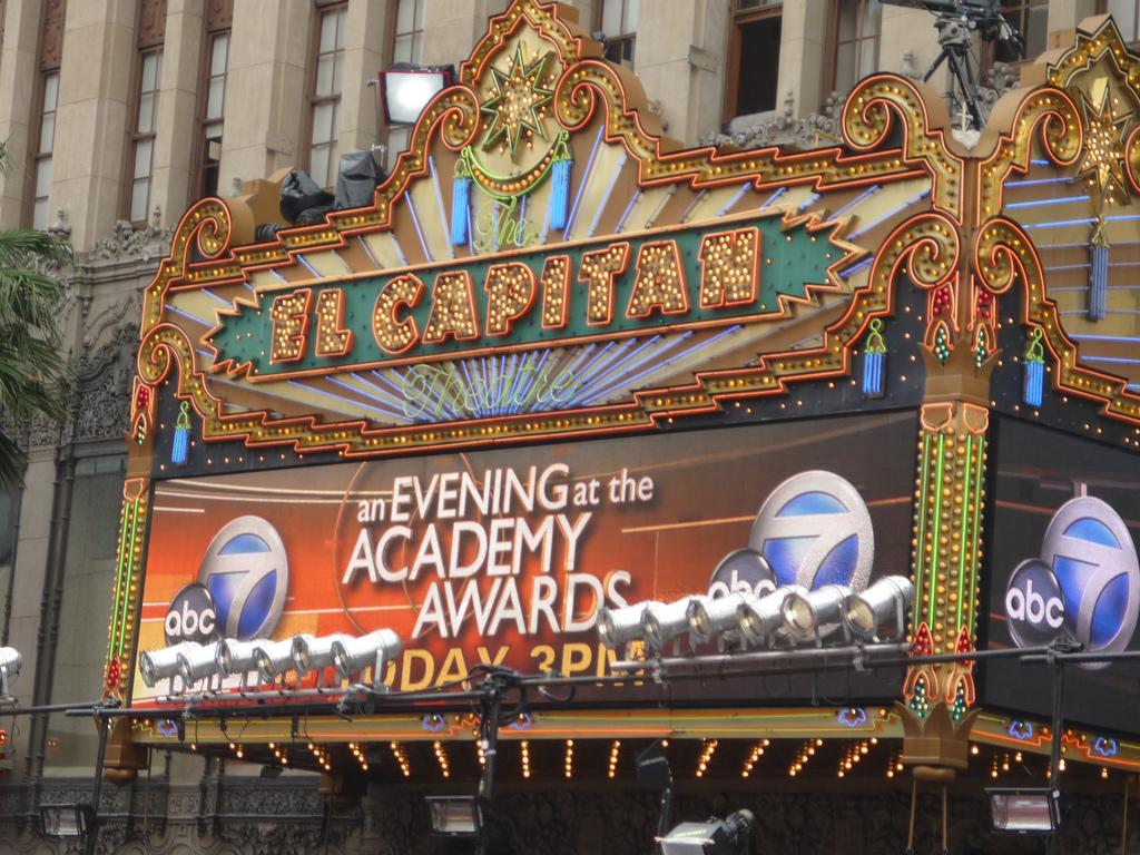 El Capitan Theatre in Los Angeles - An Evening at the Academy Awards (ABC)